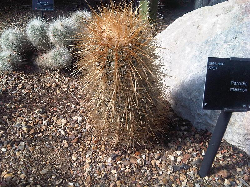 Parodia maassii in Kew Gardens, England.